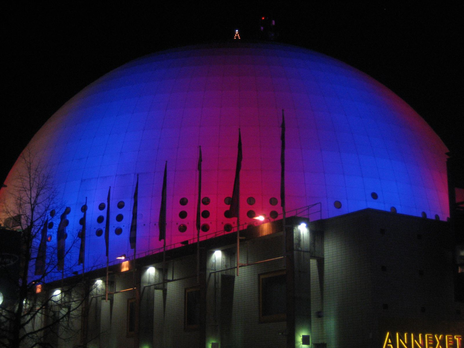 globen was beautiful at night. i took this picture before an ice hockey match (djurgården against södermalm in hovet)